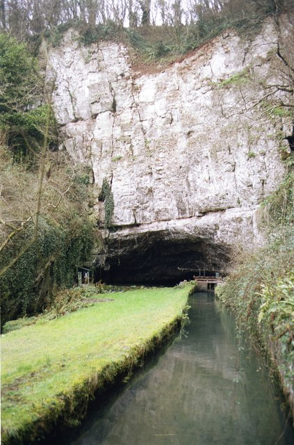 Wookey Hole and mill leat